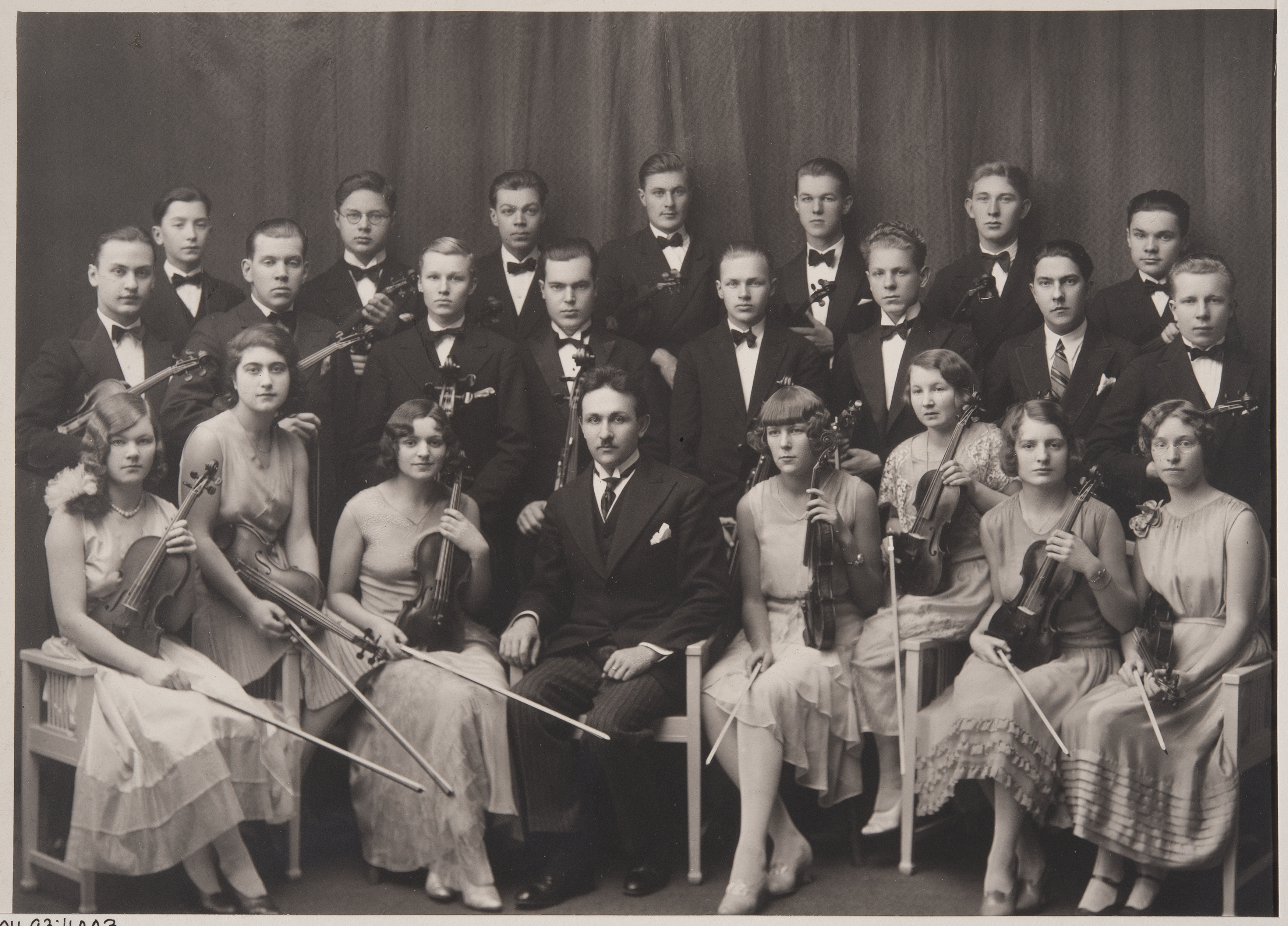 Photograph of the chamber orchestra of the Vyborg Music School. In the middle, Boris Sirpo (1893–1967).